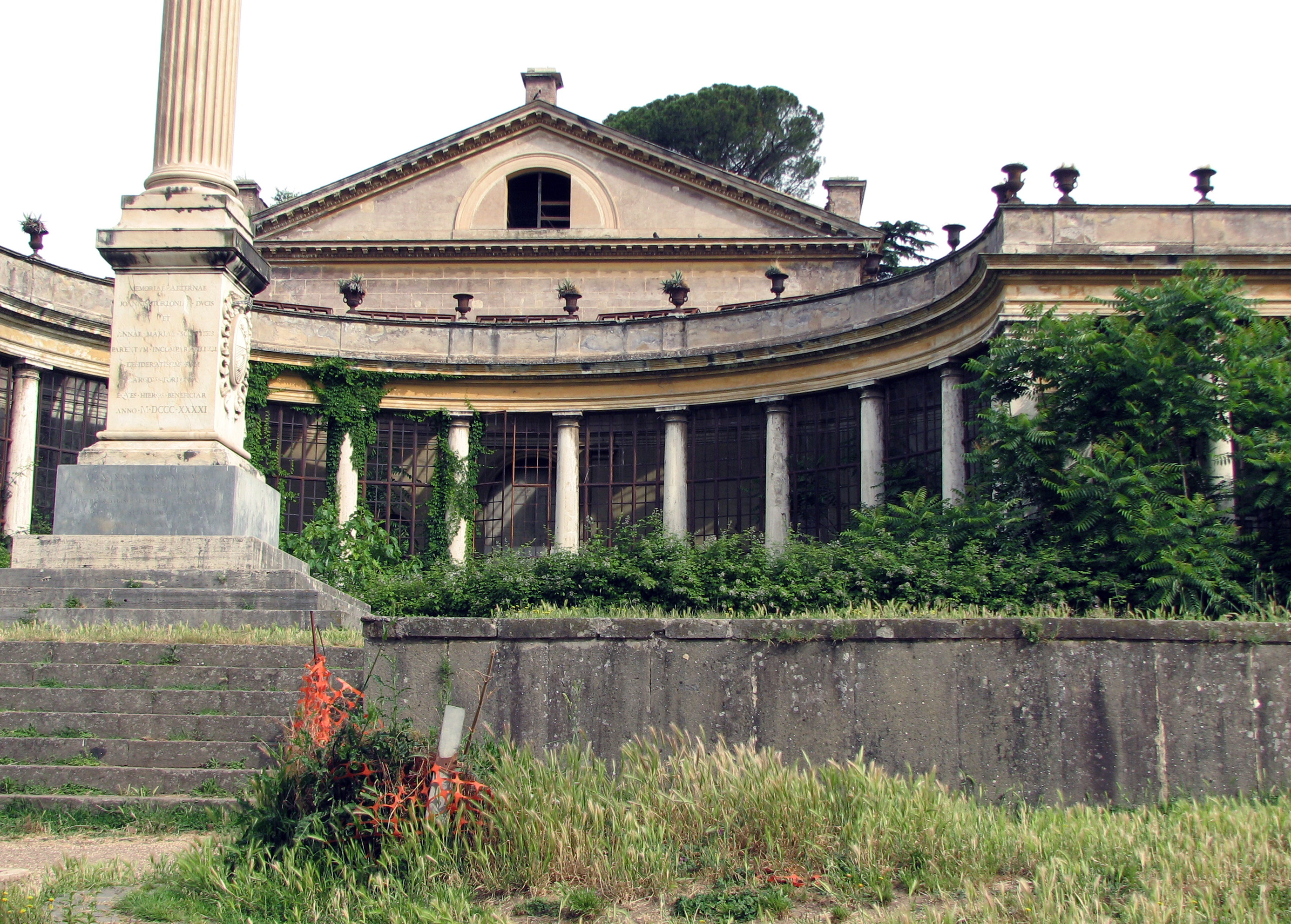 Villa Torlonia in Roma, Italy. Theatre